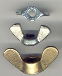 Cropped version of Image:Nut-hardware.jpg showing wingnuts only